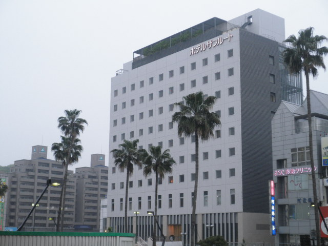 Hotel Sunroute Tokushima